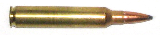 300 Remington Ultra Magnum (RUM) rifle cartridge